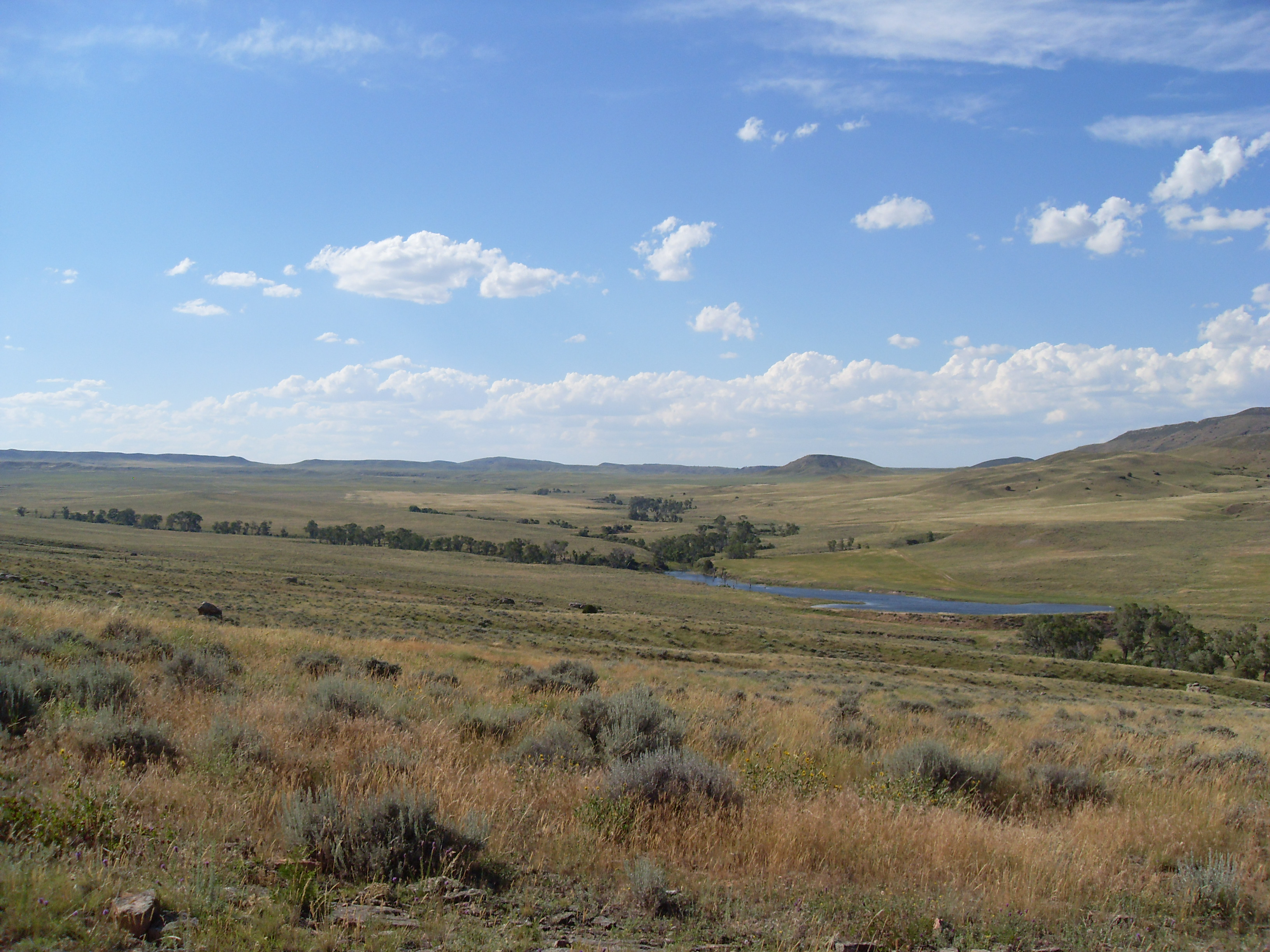 Typical example for the landscape in Converse County at Wagonhound Rd, close to Douglas, WY